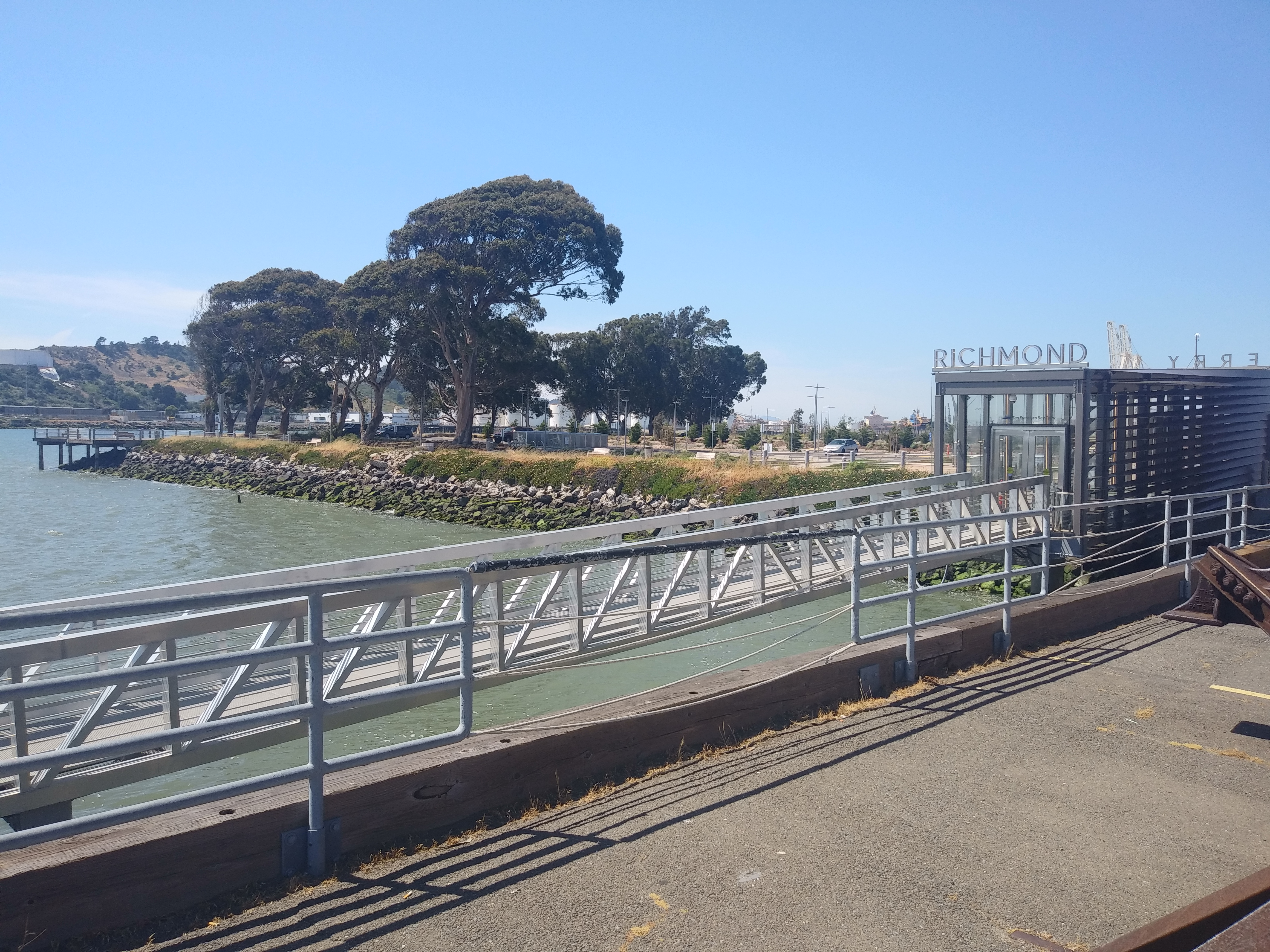 Richmond Ferry Terminal from the east looking west with the gangway in the foreground and the parking lot in the background at the foot of Harbour Way South in Richmond, California, USA